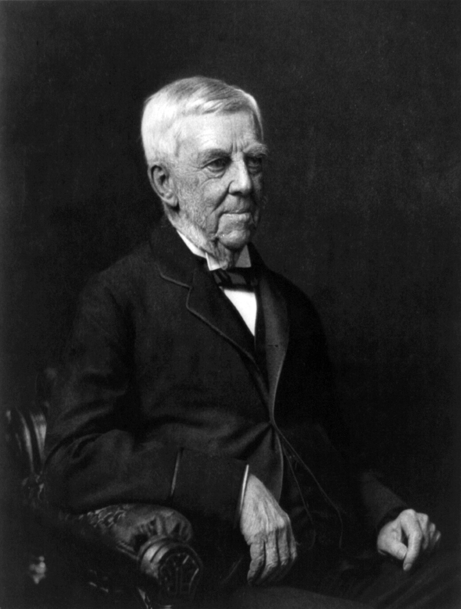 Oliver Wendell Holmes (1809–1894), American physician and writer